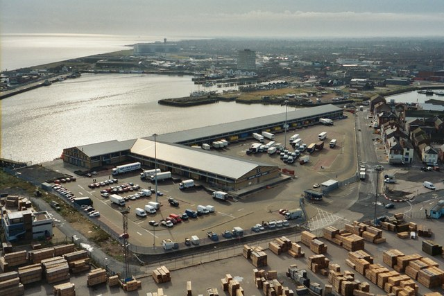 Grimsby Fish dock and Fish market Taken from the top of the Grimsby dock tower